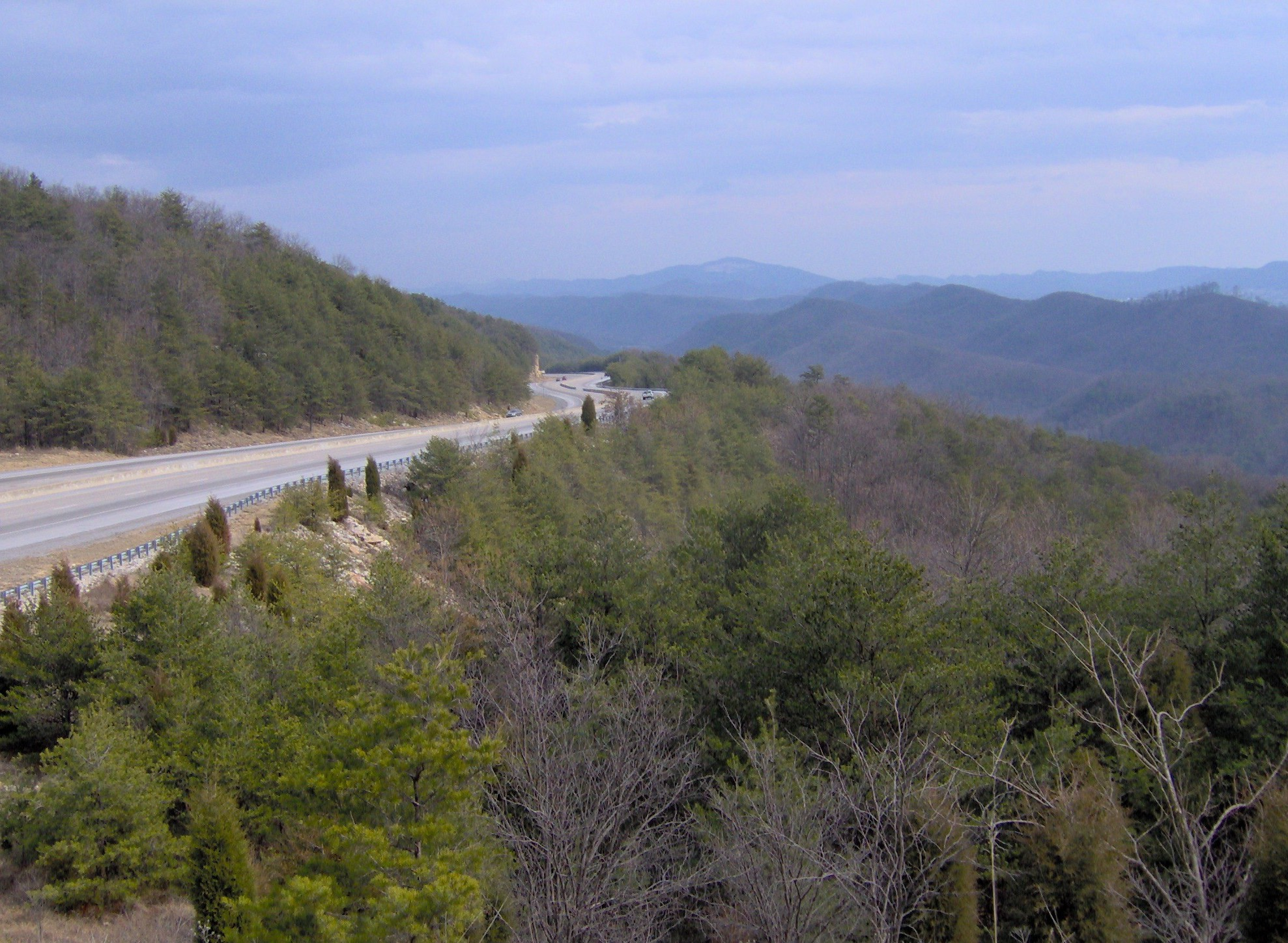 US Route 25 descending the southern slope of Clinch Mountain in Grainger County, Tennessee, in the southeastern United States.